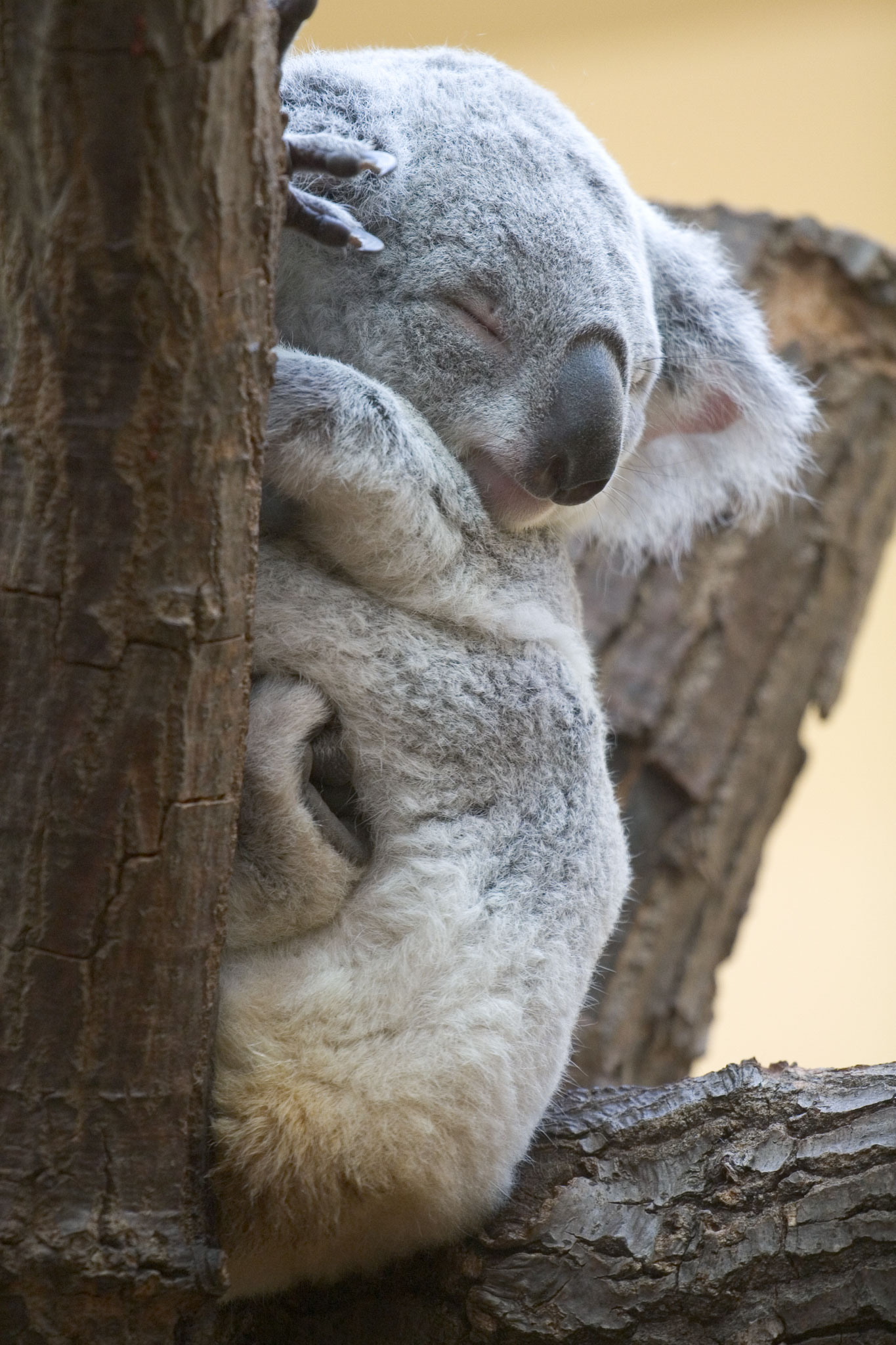 A koala hanging from a tree.